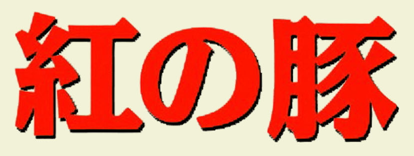 Kurenai no buta (Porco Rosso) title, from Japanese DVD disc.